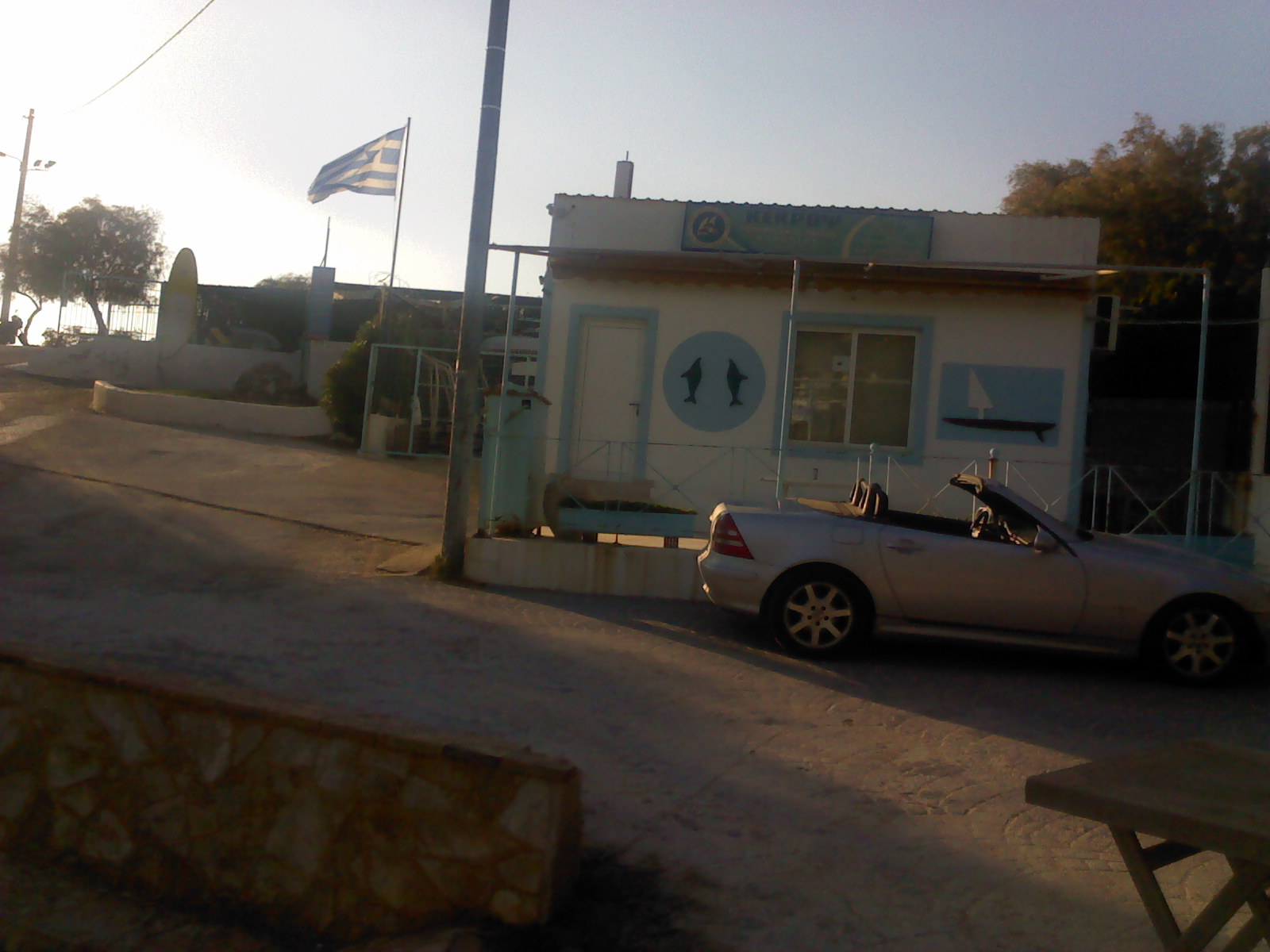 Naval club Kekrops